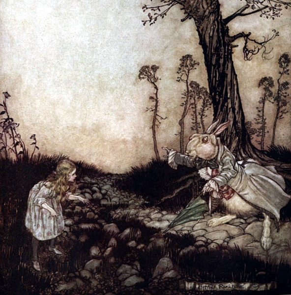 An Arthur Rackham illustration from Alice's Adventures in Wonderland.